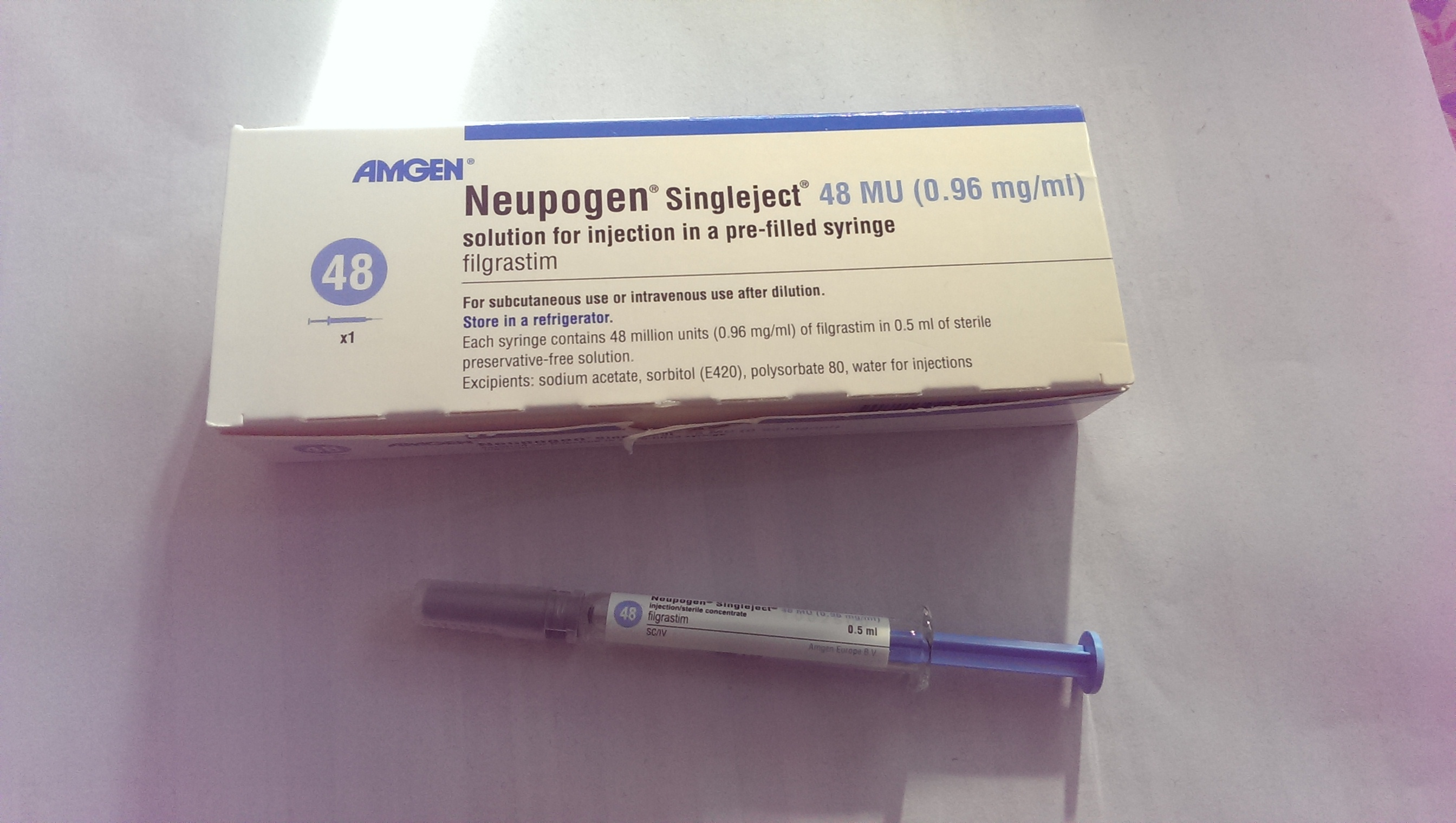 AMGEN Neupogen box and syringe which patients use to inject themselves for G-CSF treatment.